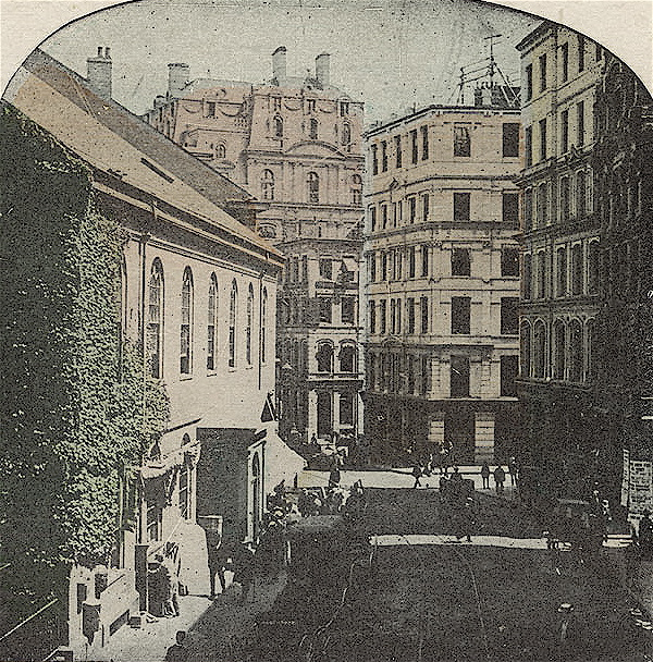 Accession No.: 06_11_000599 Title: Milk St., Boston, Mass. RITE Local Subject: Street Views Subject: Boston (Mass.) Format: Derived from sterograph BPL Department: Print